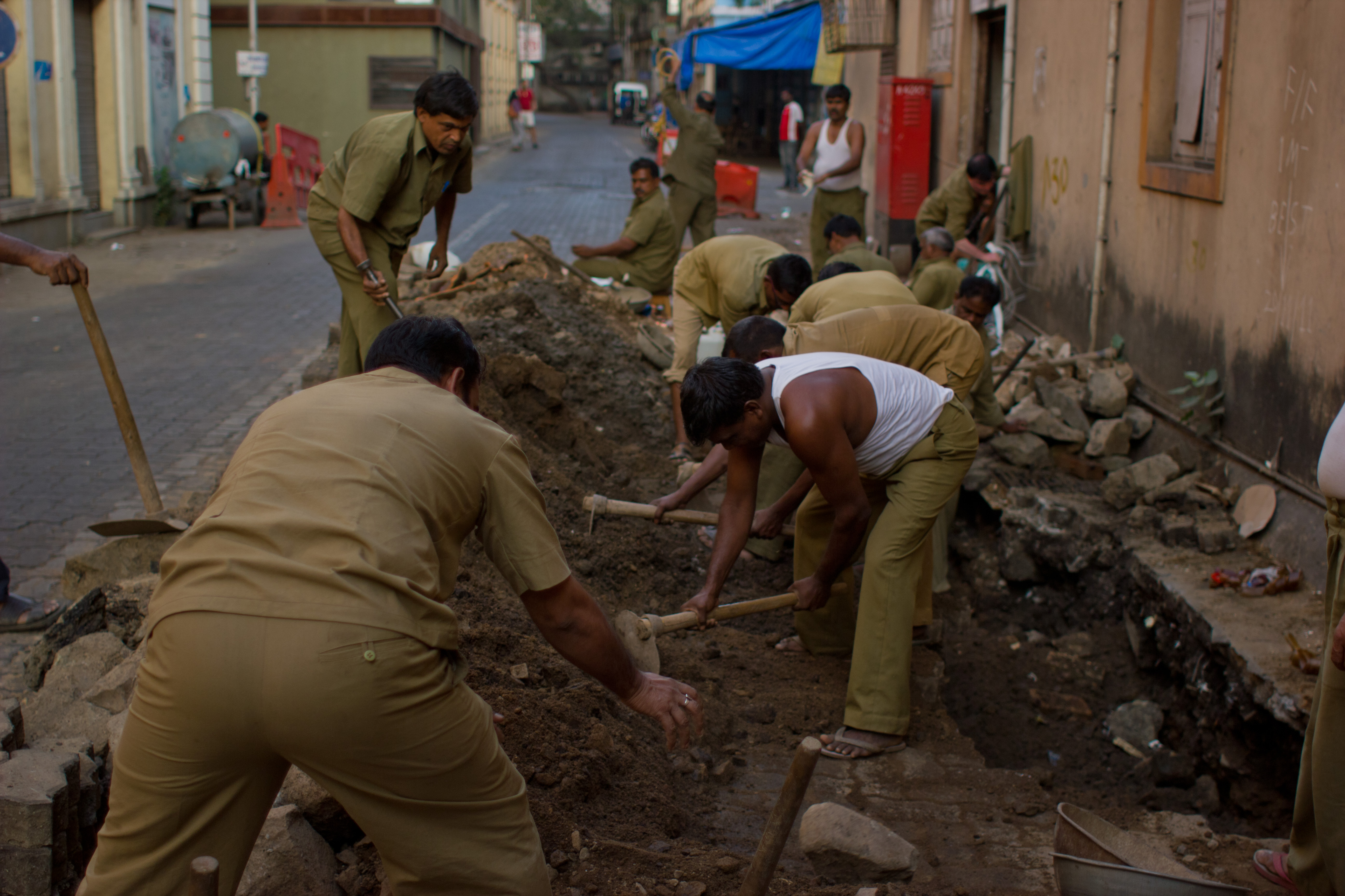 Mumbai Workers